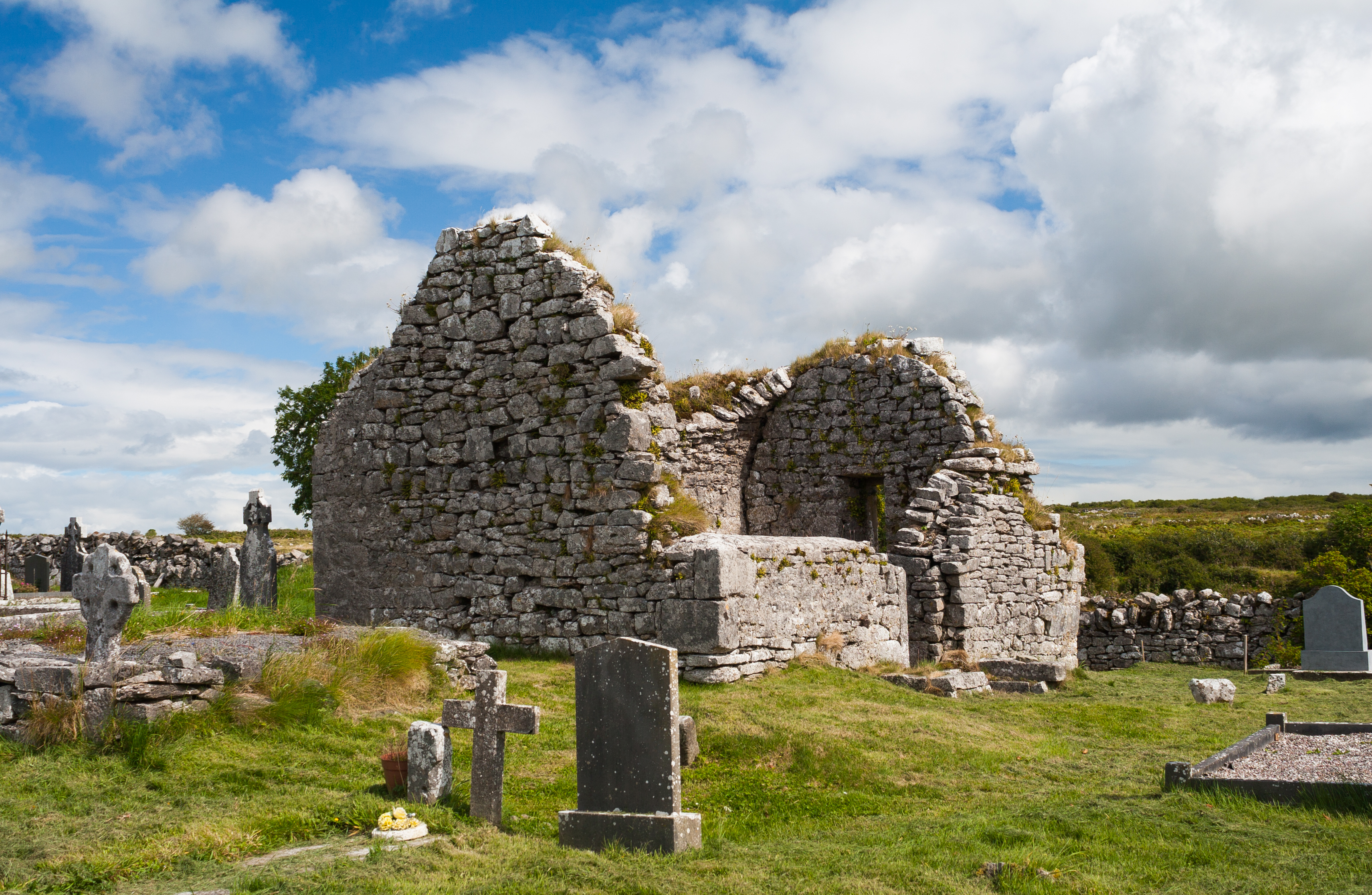 South-west view of the chapel erected for James Davoren on the monastic site of Noughaval. Inside there is an inscription: “This chapple was built by James Davoren of Lisdoonvarna who died the 31 of July 1725 aged 59 years.”